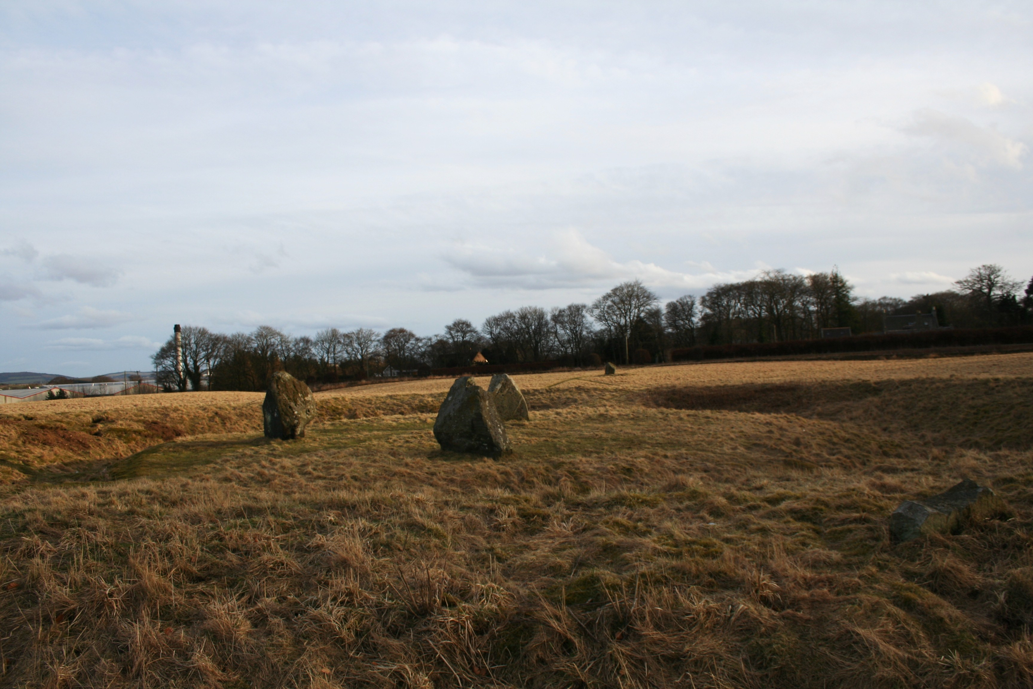 Broomend of Crichie Stones Three stones of the henge closer and the farther away marking an avenue approach.